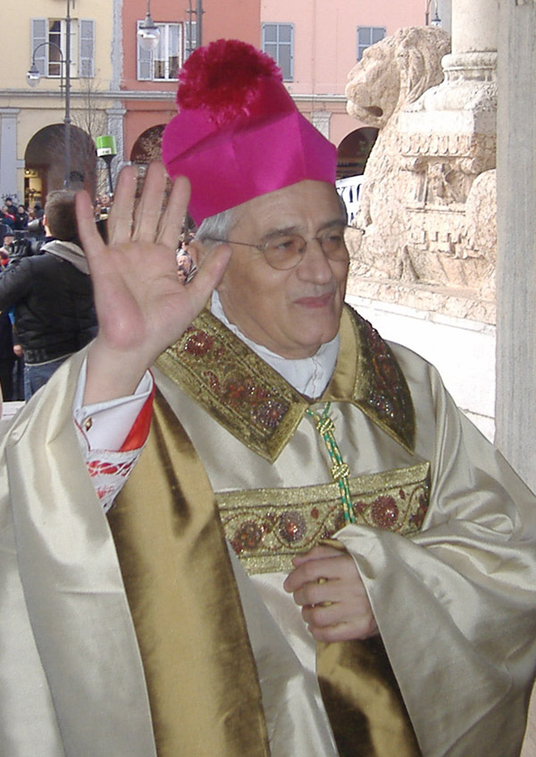 Gianni Ambrosio - Bishop of Piacenza - Italy